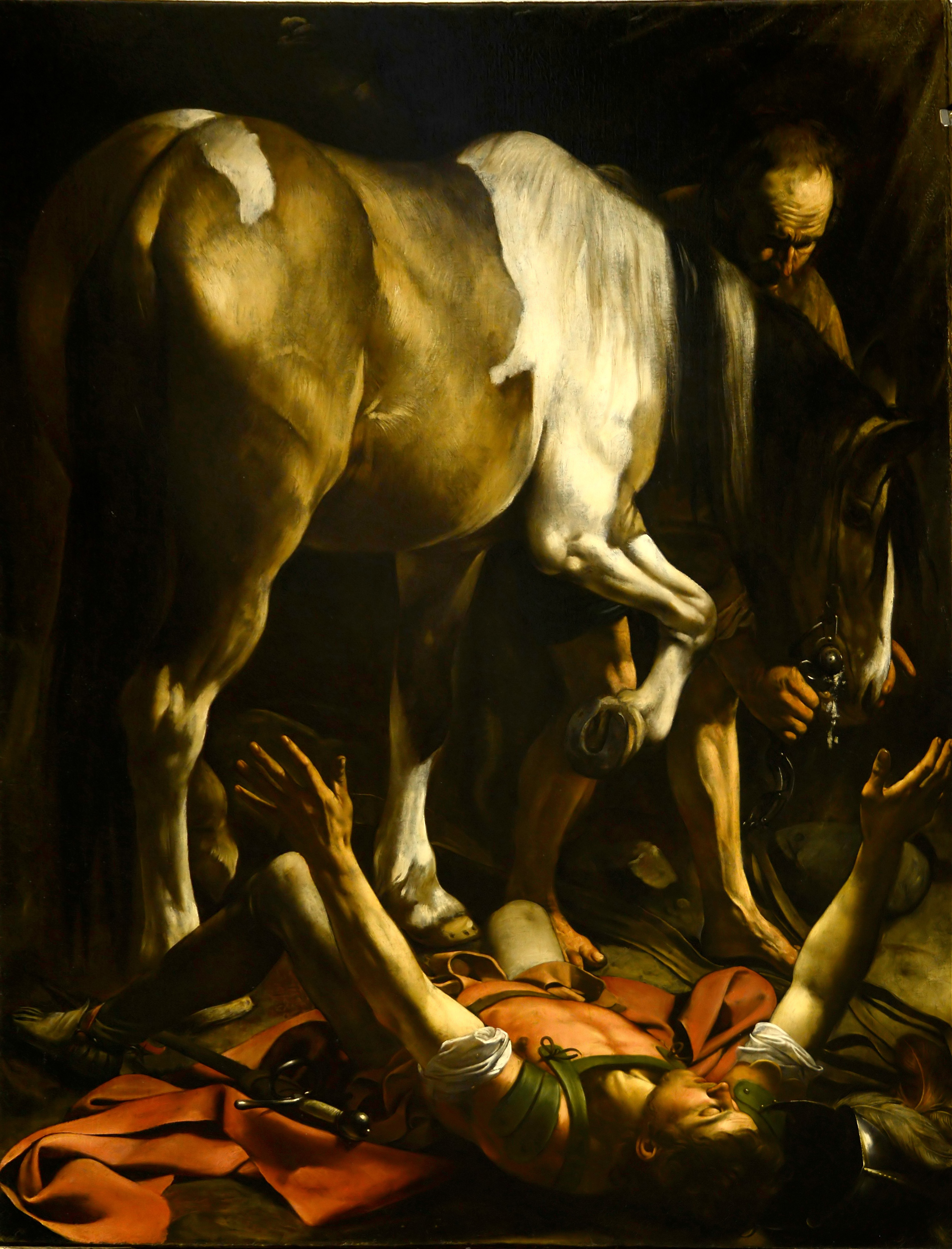 The conversion of St Paul by Caravaggio. Church of Santa Maria del Popolo, Rome